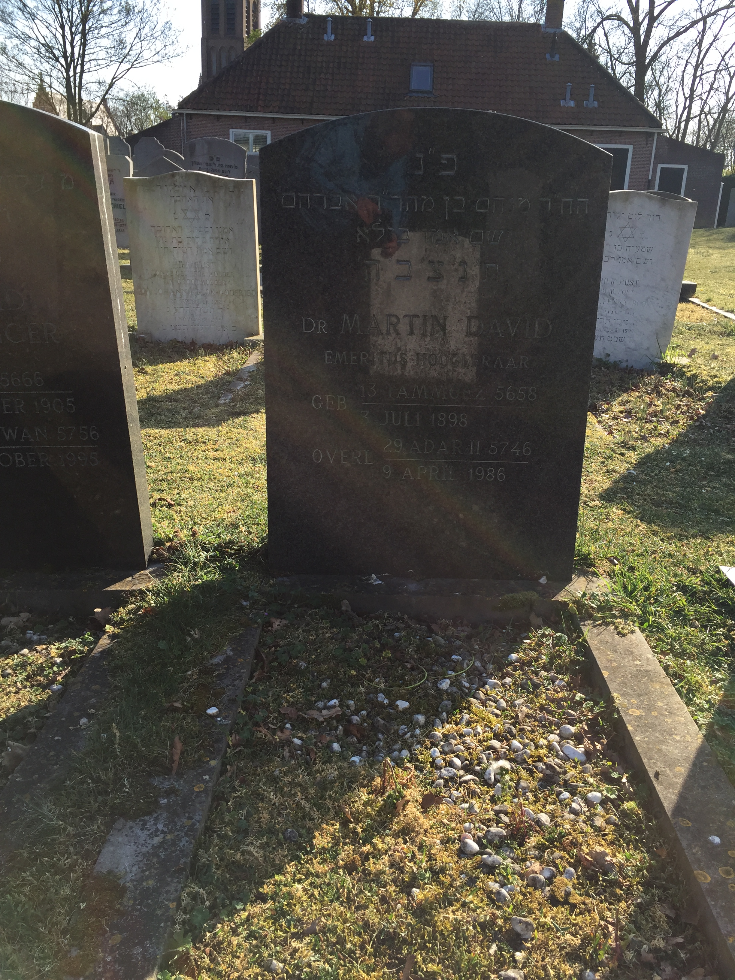 Jewish cemetery Katwijk